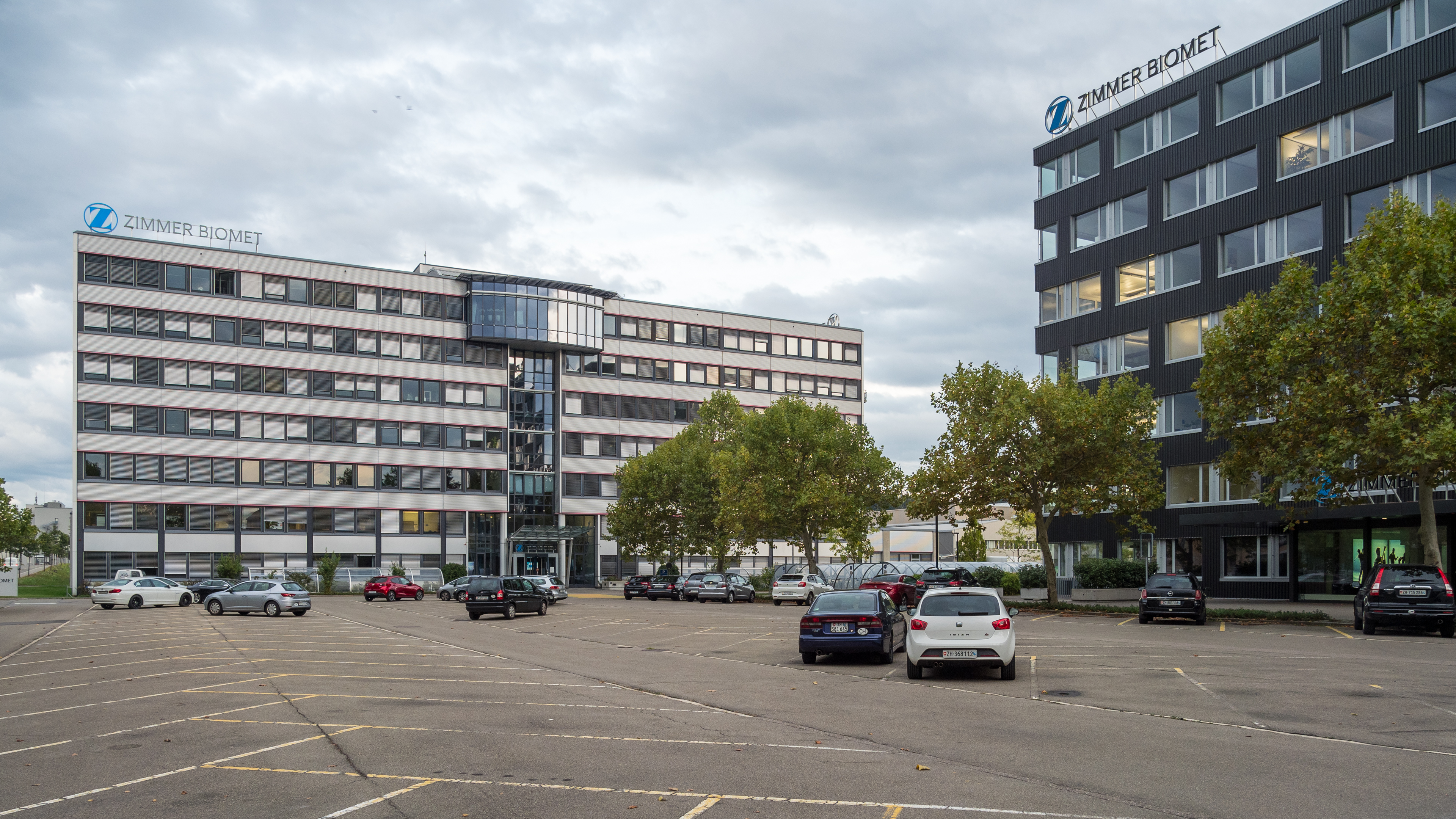 Buildings of ZIMMER BIOMET in Winterthur, Switzerland.